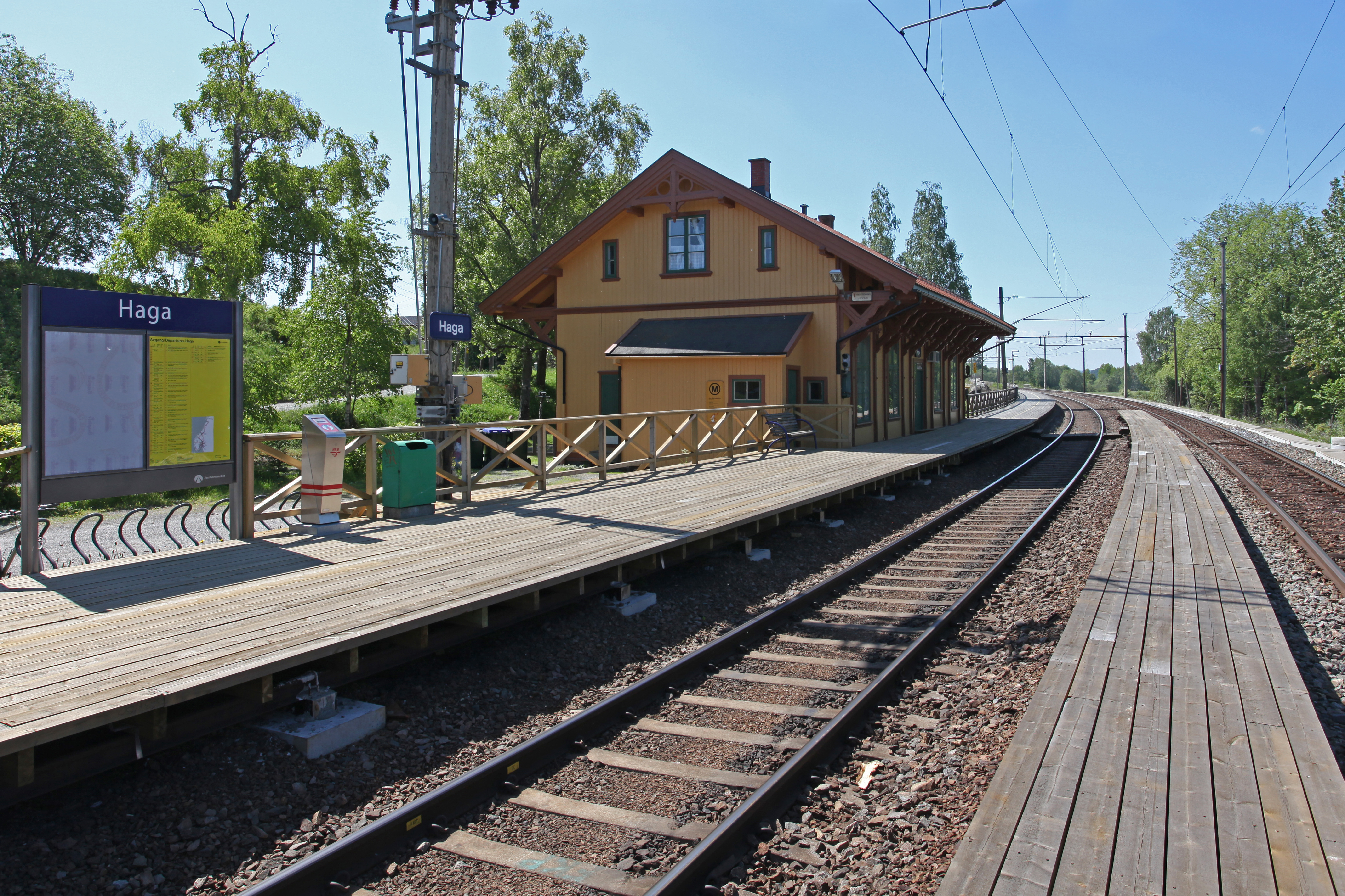 Picture of Haga Railway Stasjon (Norway)